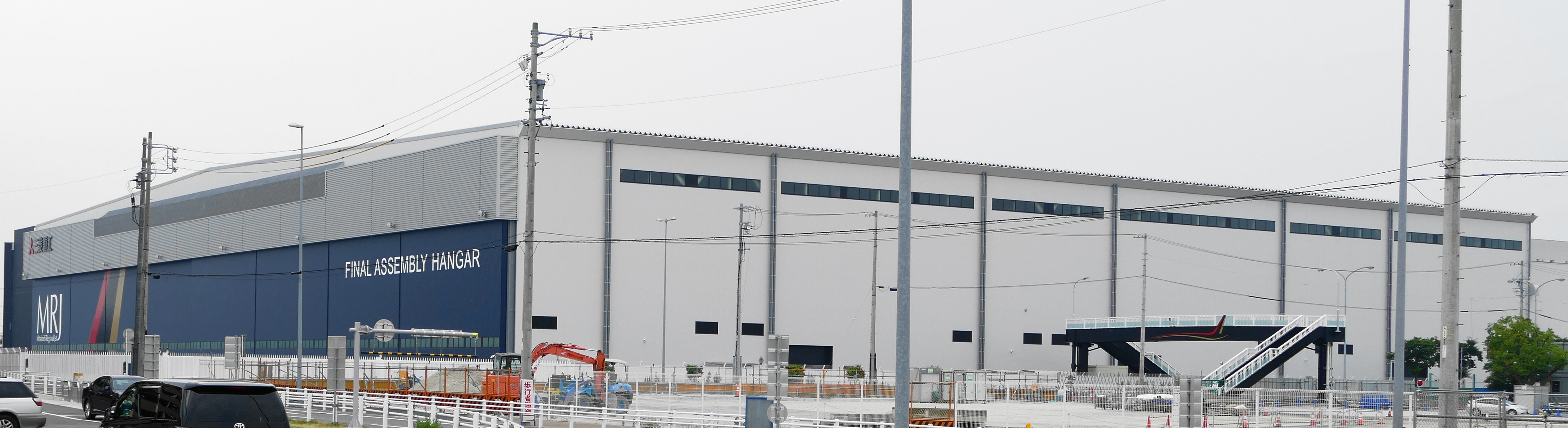 MRJ FINAL ASSEMBRY HANGER,Aichi prefecture,Japan